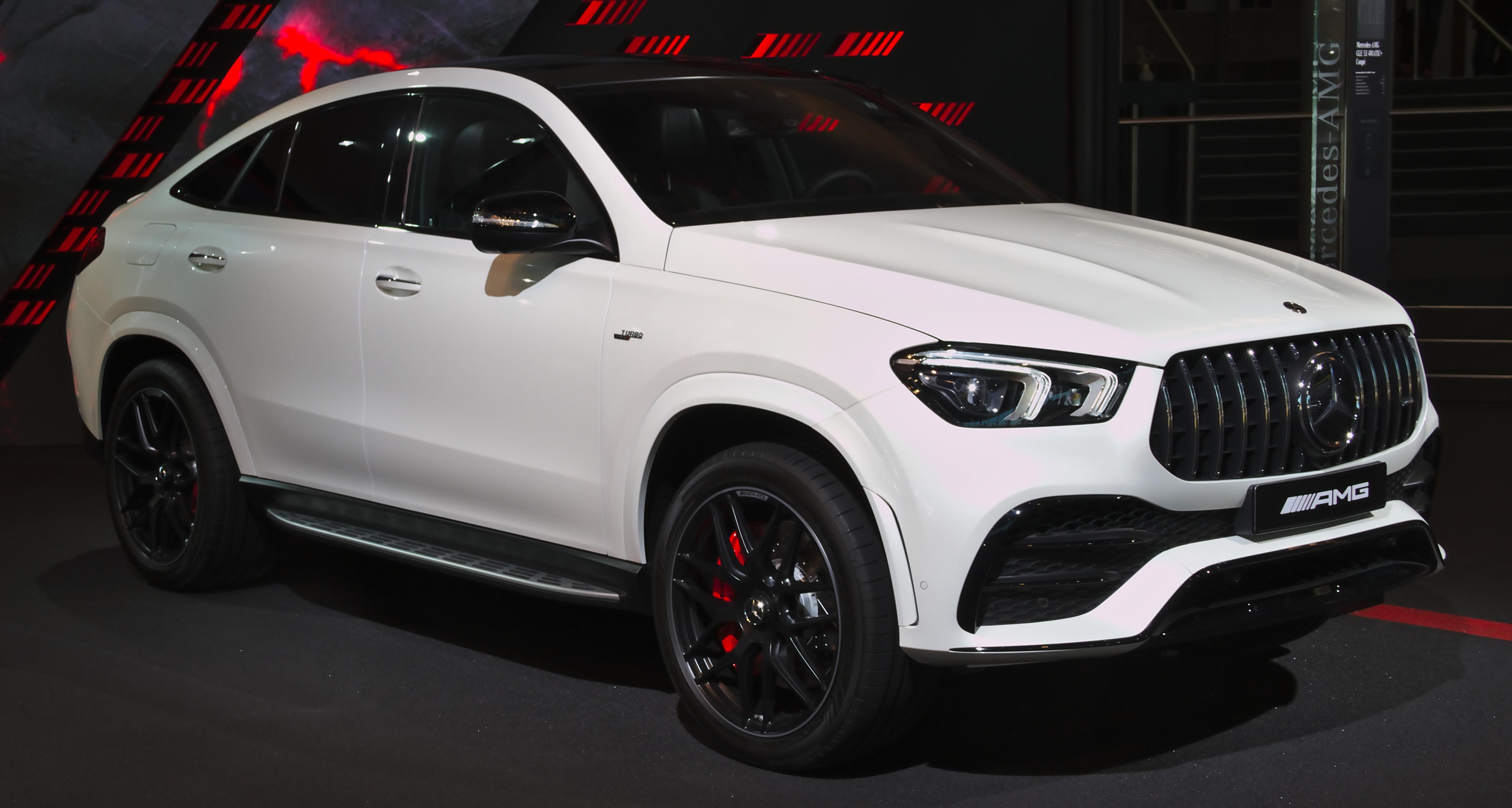 Mercedes-AMG_C167 at IAA 2019